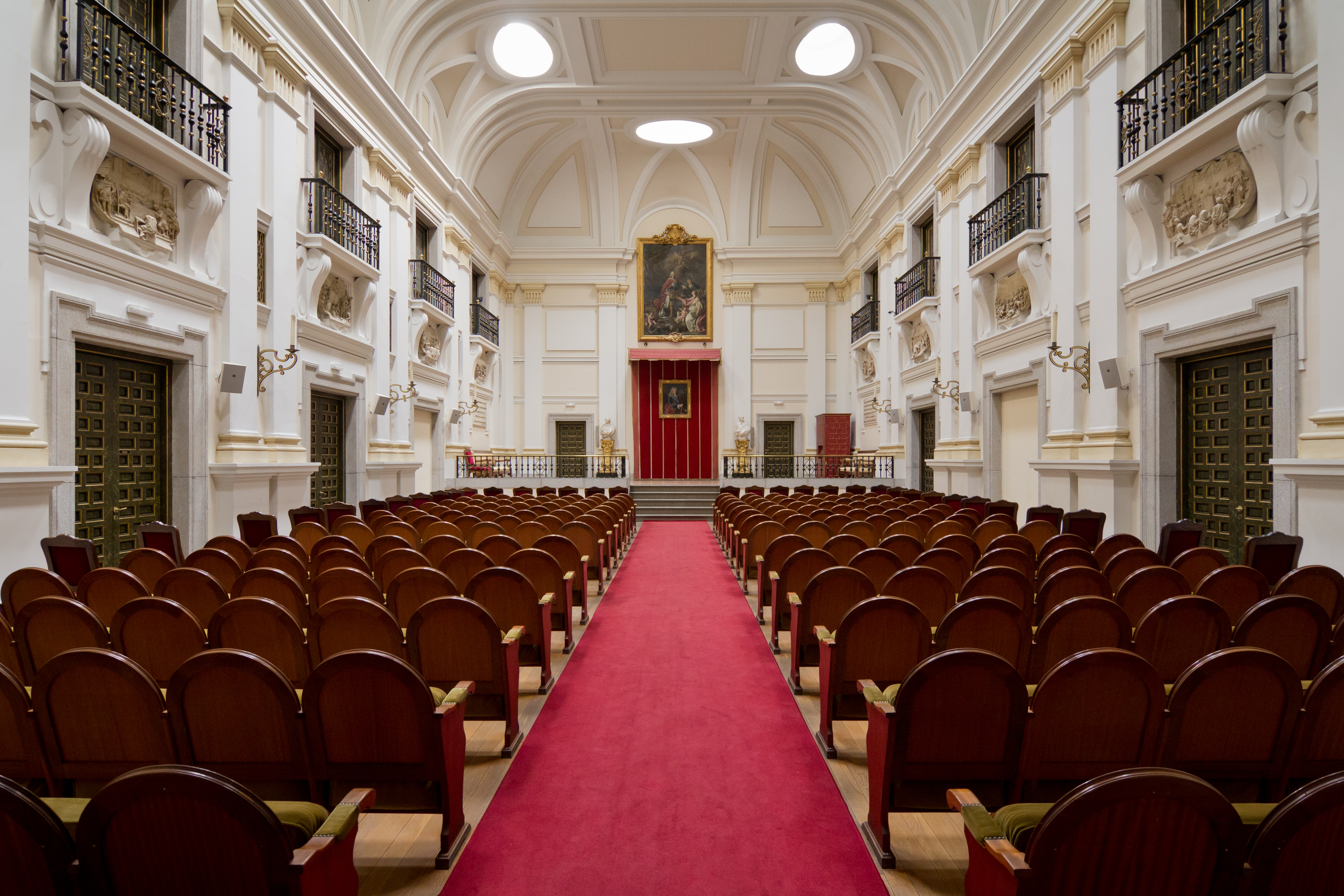 Royal Academy of Fine Arts of San Fernando, Madrid, Spain.